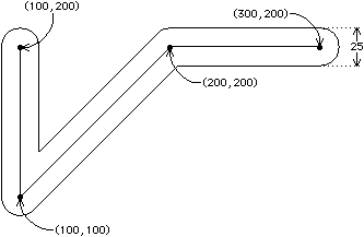 This is figure 2 of Appendix B of my book "Computer Aids for VLSI Design" (by Steven M. Rubin). The book is currently on the web at